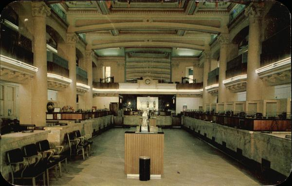 Postcard image (postmarked 1952 on the obverse) showing the "Pan American Bank of Miami" first floor and mezzanine banking hall in the Security Building (as it was known before and after this period)